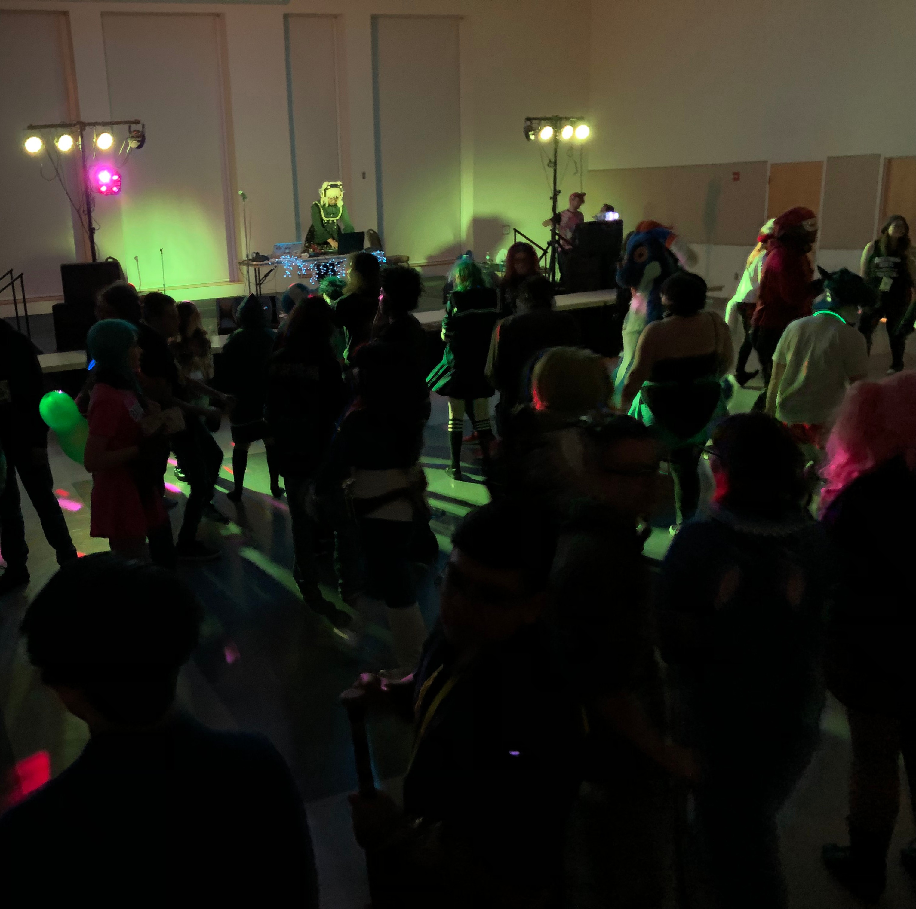 A rave at Animarathon 2019.